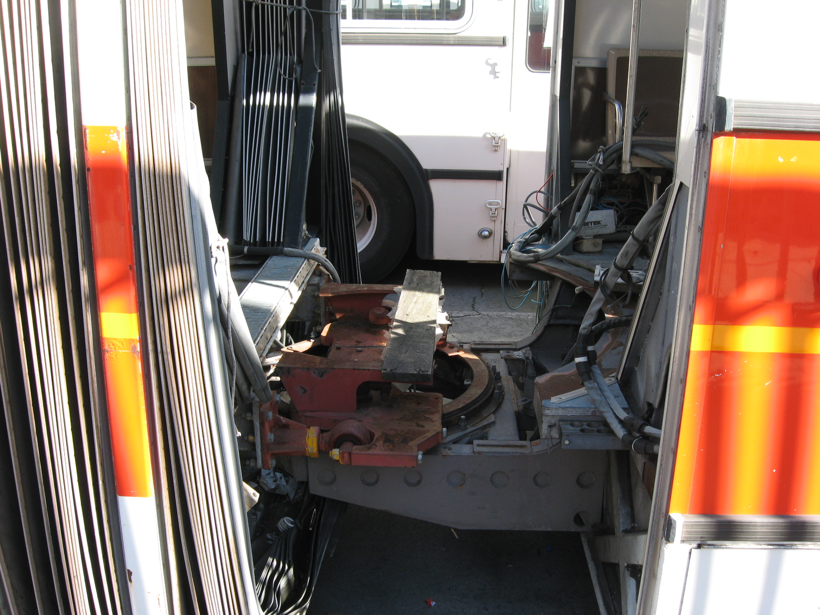 Articulation joint on a Muni New Flyer bus #7025.